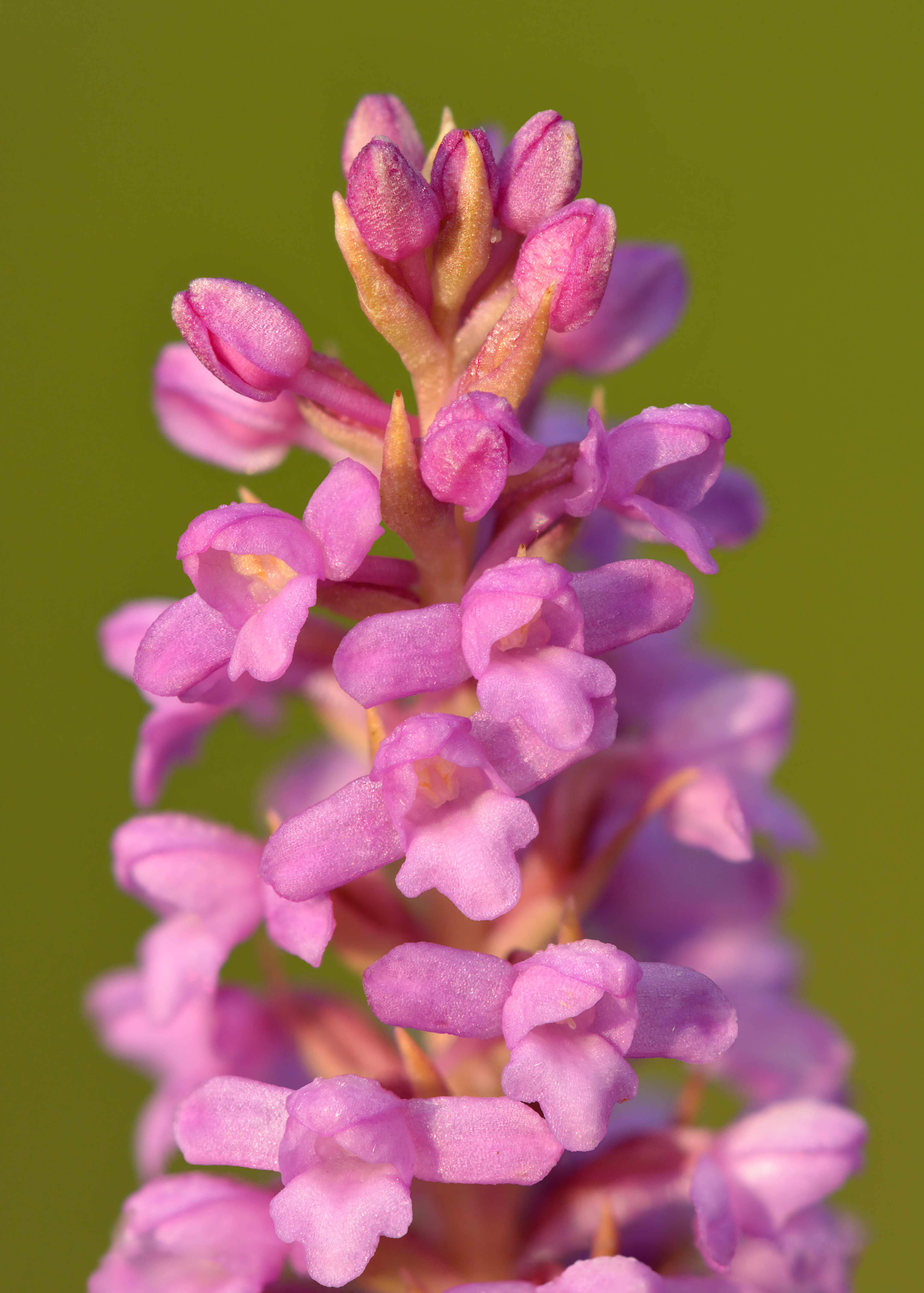 Short spurred fragrant orchid (flower size ca 5–6 mm)